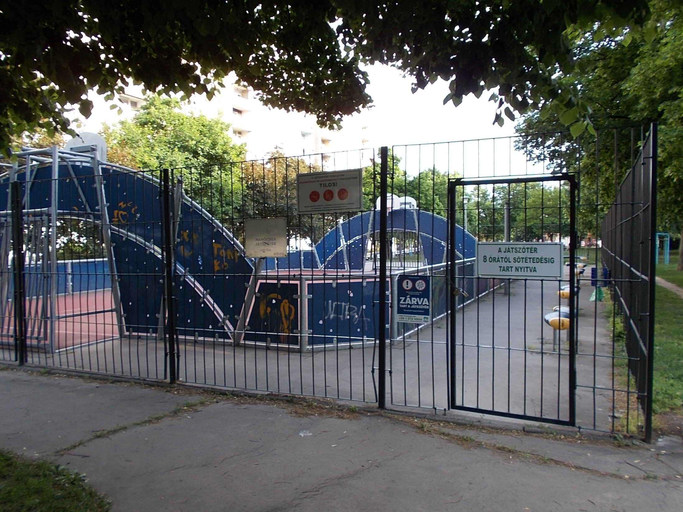 Manócska playground. Streetball field. Closed due to Covid-19. - Fehérvári Road, Albertfalva neighbourhood, Újbuda, Budapest.